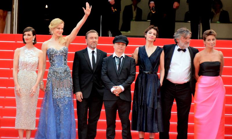 Cast and crew of "Grace of Monaco" at the Cannes film festival. From left to right : Paz Vega, Nicole Kidman, Tim Roth, director Olivier Dahan, Jeanne Balibar, producer Pierre-Ange Le Pogam, Geraldine Somerville.